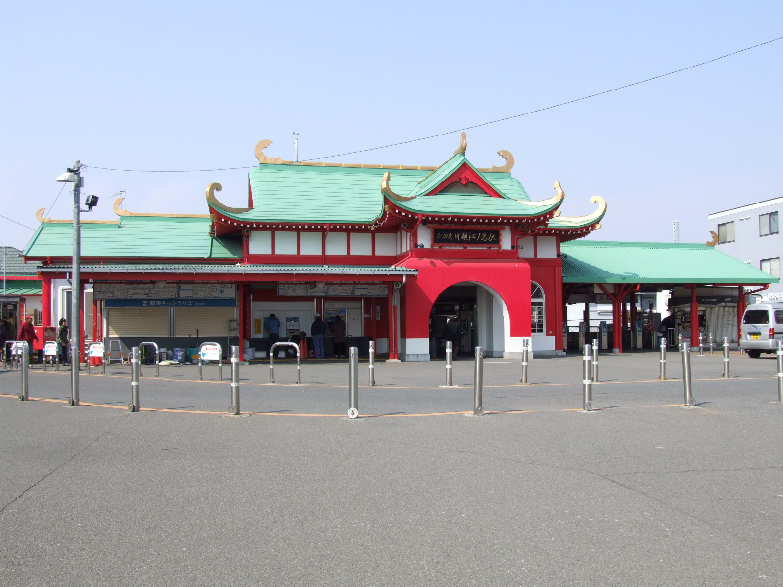 Katase-Enoshima Station on the Odakyu Enoshima Line in Kanagawa Prefecture, Japan